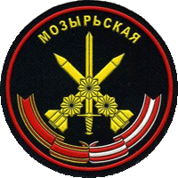 SSI of the Russian 107th Rocket Brigade before 2015